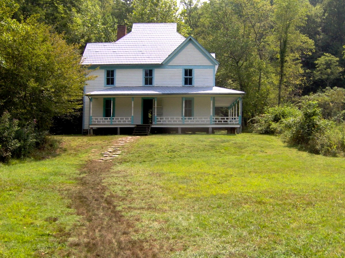 The Caldwell House in Big Cataloochee, located in the Great Smoky Mountains of North Carolina. The house was built 1898-1903 by Hiram Caldwell and family. Caldwell's father, Levi, was one of the first settlers in the valley.